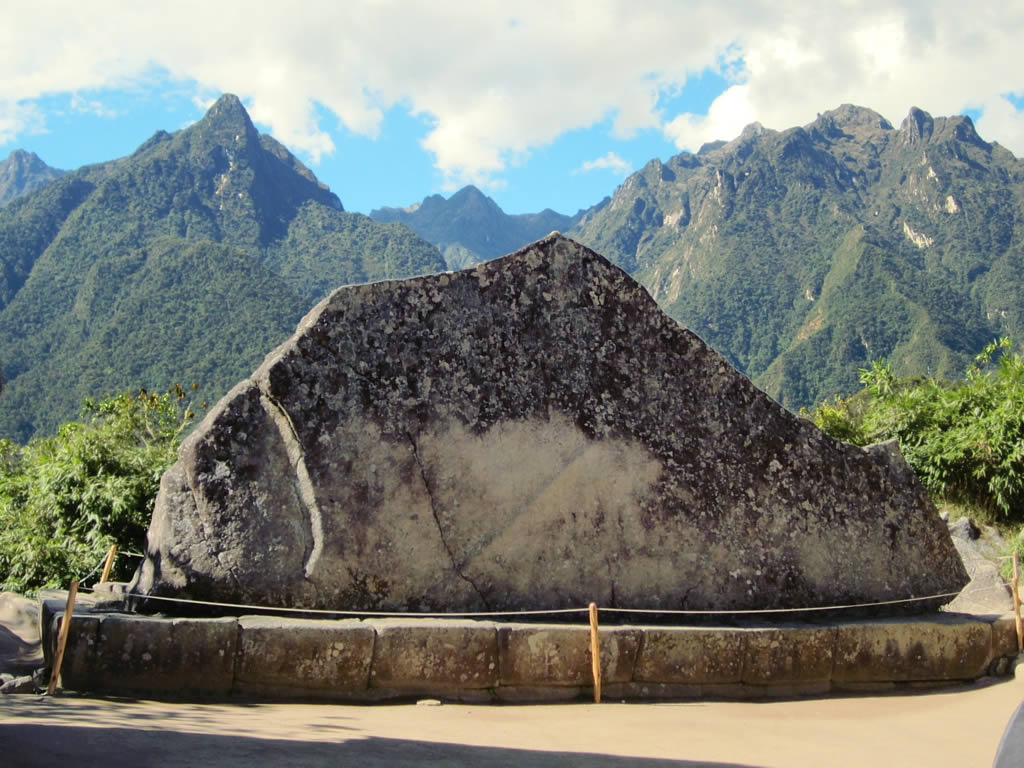 The Sacred Rock at Machu Picchu reflects the shape of Yanantin Mountain (on the left in the background).